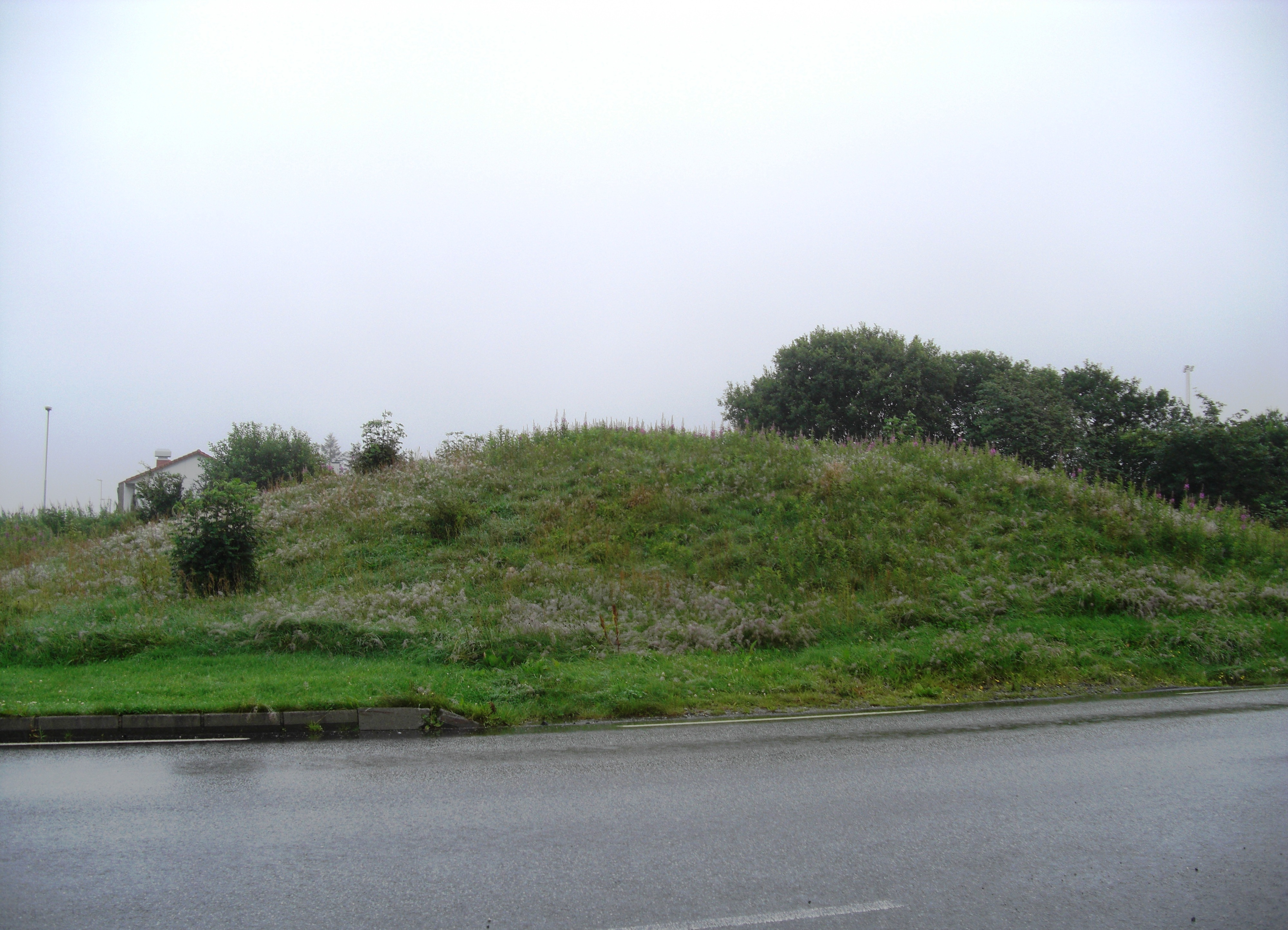 Grønhaug